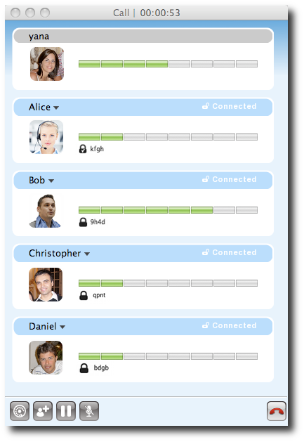 A screen shot of SIP Communicator's conference call window